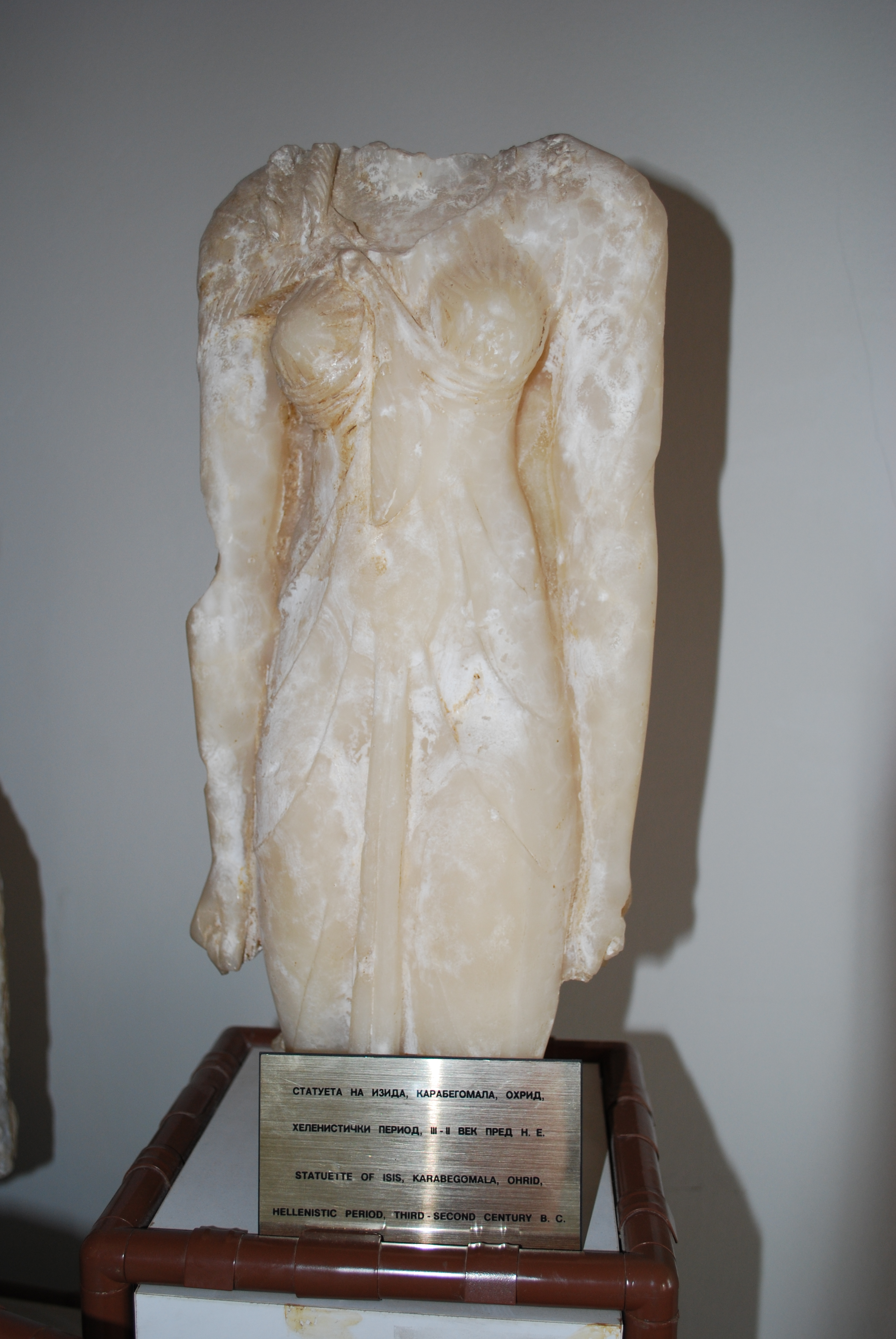 The Robevi house in Ohrid, one of the most famous architectural monuments in Macedonia. It was built in its current state in 1863 - 1864 by Todor Petkov from a village Gari near Debar. Today the house is a protected monument of culture under the "Institute for protection of cultural monuments in Ohrid". Currently, in houses is the "The Archeological museum of Ohrid". More...